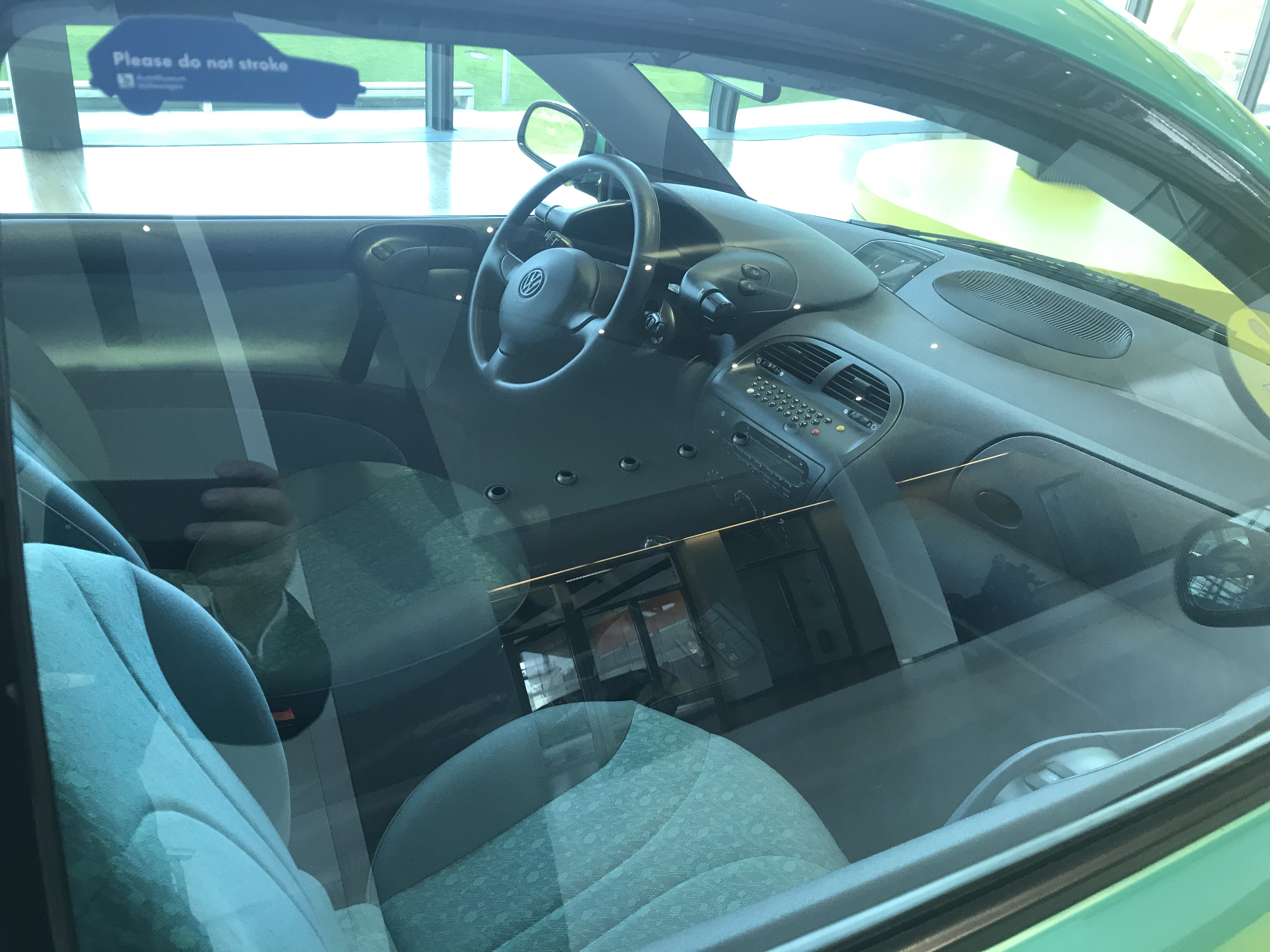 Interrior of VW Chico